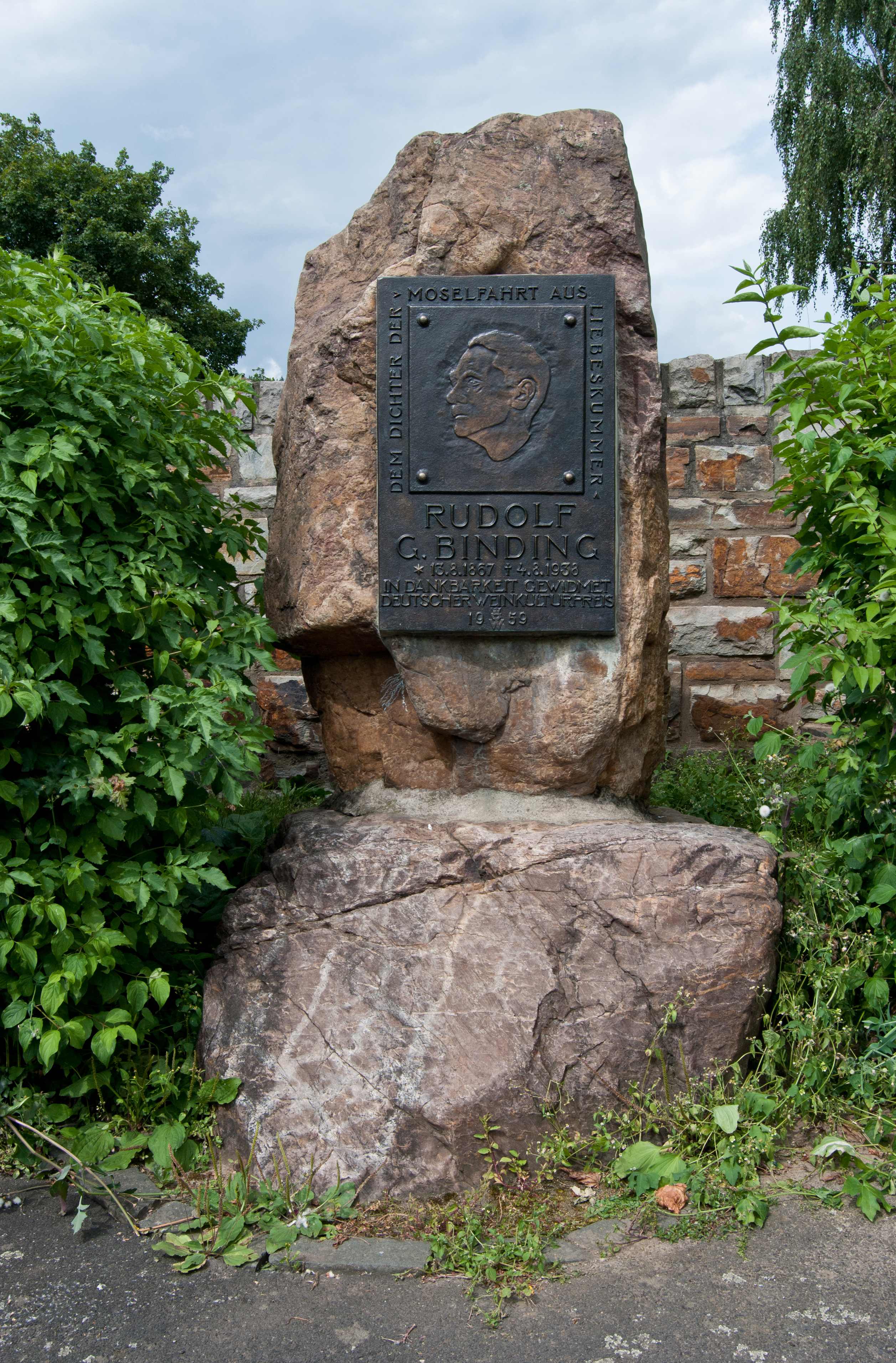 Traben-Trarbach (Rhineland-Palatinate, Germany) – district Trarbach – Rudolf G. Binding memorial This photograph was taken with a Nikon D3000